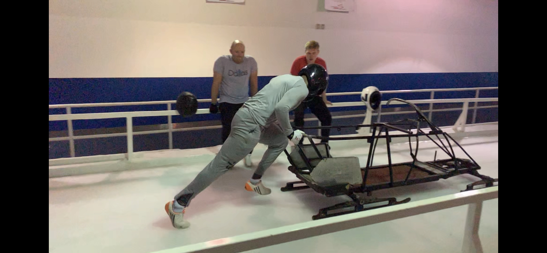 Abeda training in the Winsport Ice House